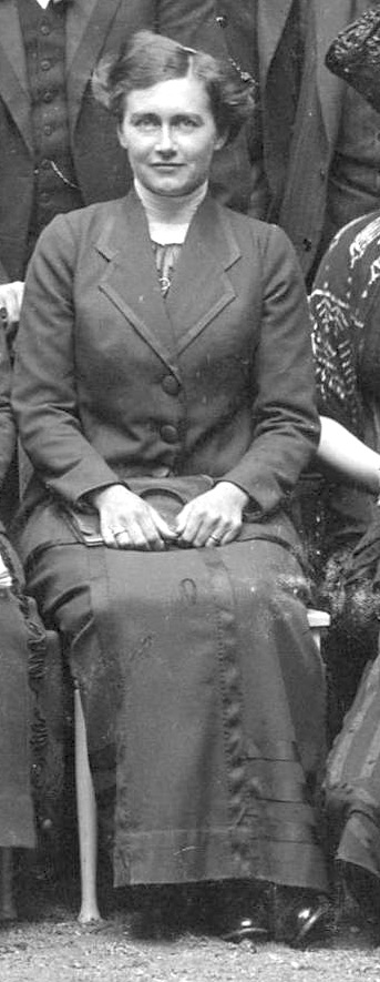 Emma Jung (born Emma Rauschenbach; 30 March 1882 – 27 November 1955) was a psychotherapist and author. She was the wife of Carl Gustav Jung, the prominent psychiatrist and founder of Analytical psychology. This crop of a larger image is from 1911. It is not the highest resolution, but provided for historical reasons.